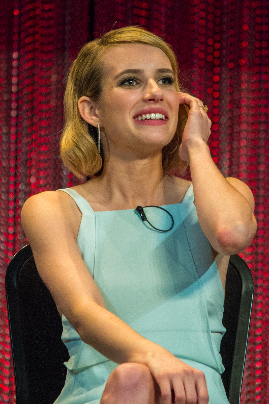 Emma Roberts at PaleyFest 2014 for the TV show "American Horror Story: Coven"